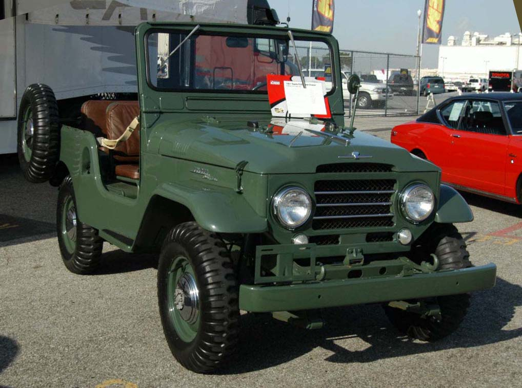 Toyota Land Cruiser FJ25 at the 2008 "Toyota Fest"